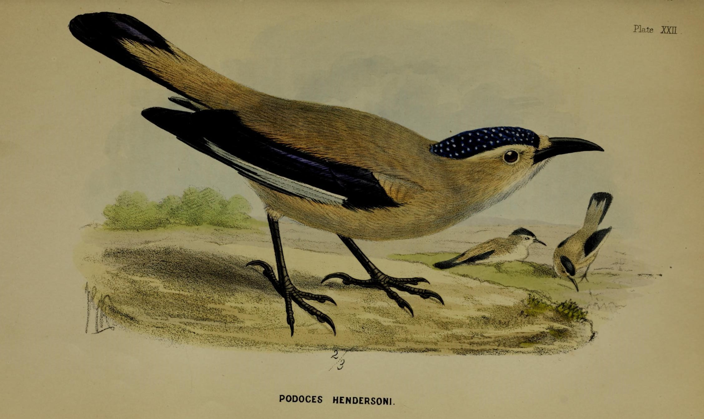 Lahore to Yārkand : incidents of the route and natural history of the countries traversed by the expedition of 1870, under T. D. Forsyth /